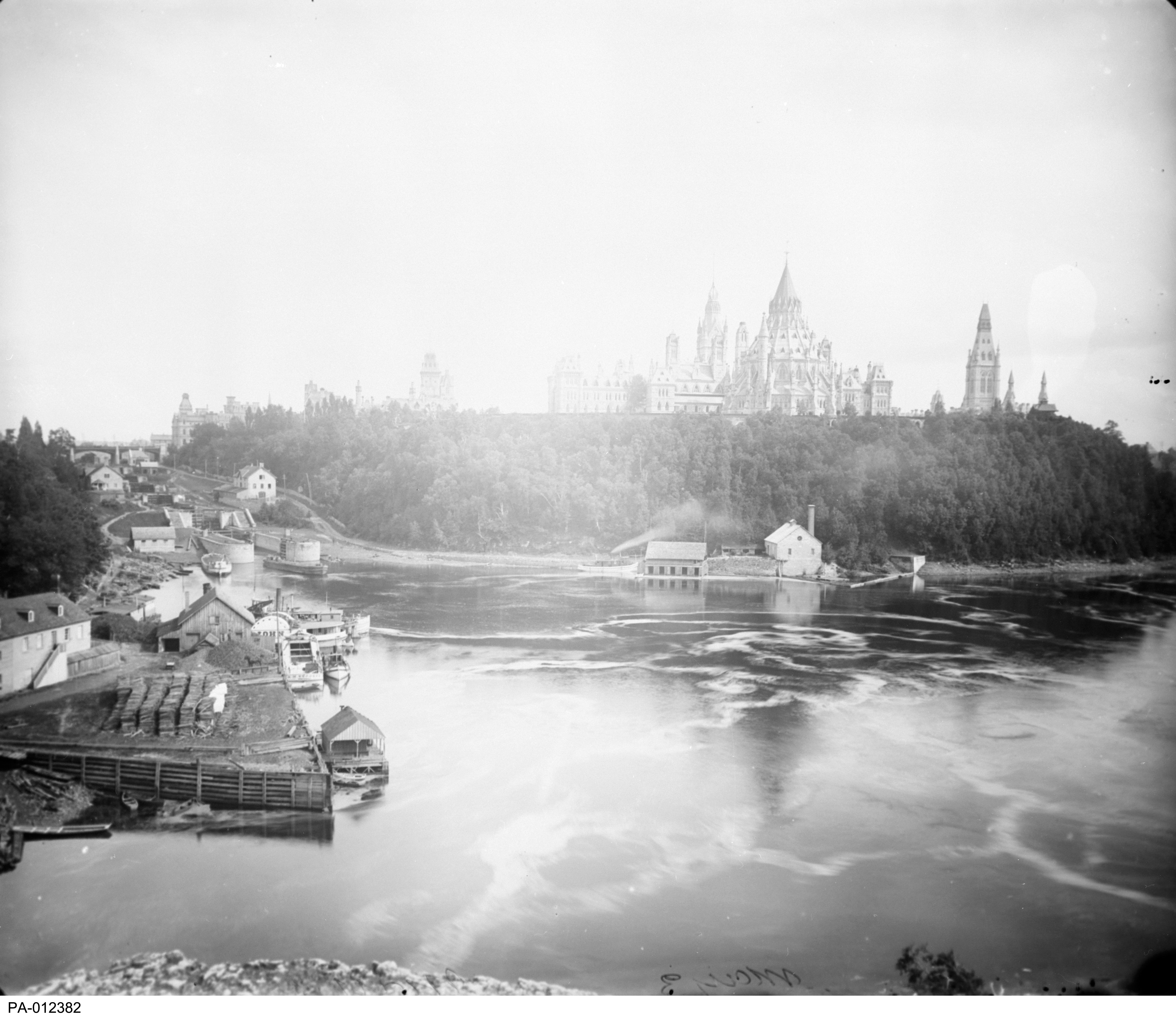 Photograph of Entrance Valley and the rear of Parliament Hill by William James Topley, 1880. Parliament Hill from rear showing Rideau Canal Locks and Entrance Bay.